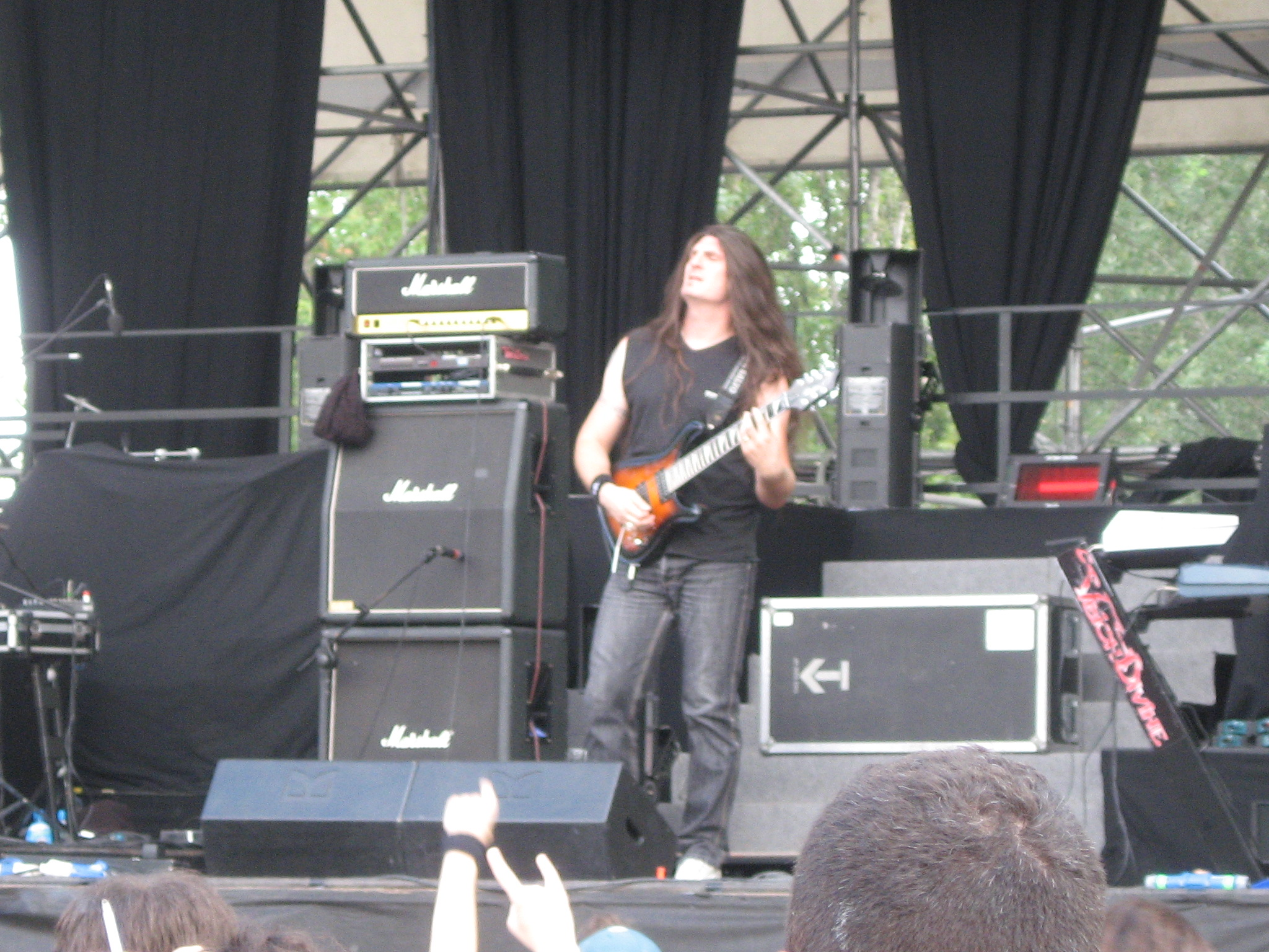 Vision Divine at Rockin' field festival in Milan, Italy (26 July 2008)